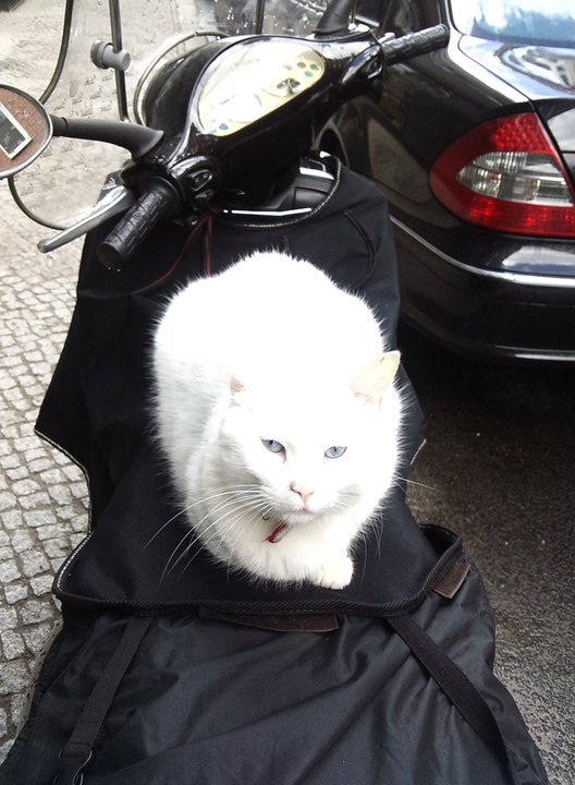 A white cat sitting on a moped in Berlin, Germany